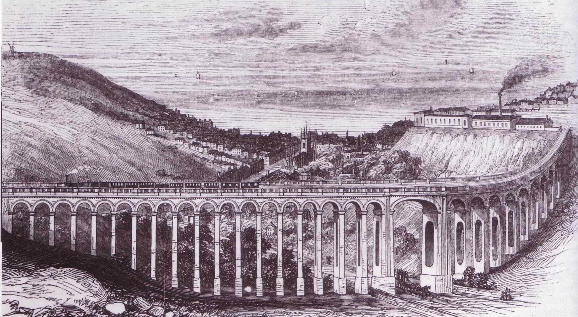 London Road viaduct Brighton